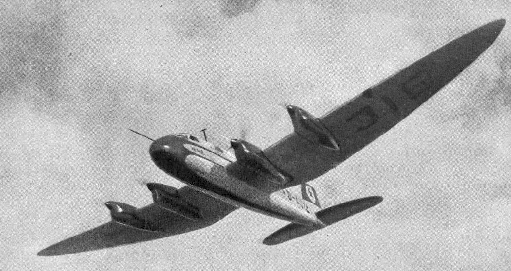 Heinkel He 116 photo from L'Aerophile October 1937